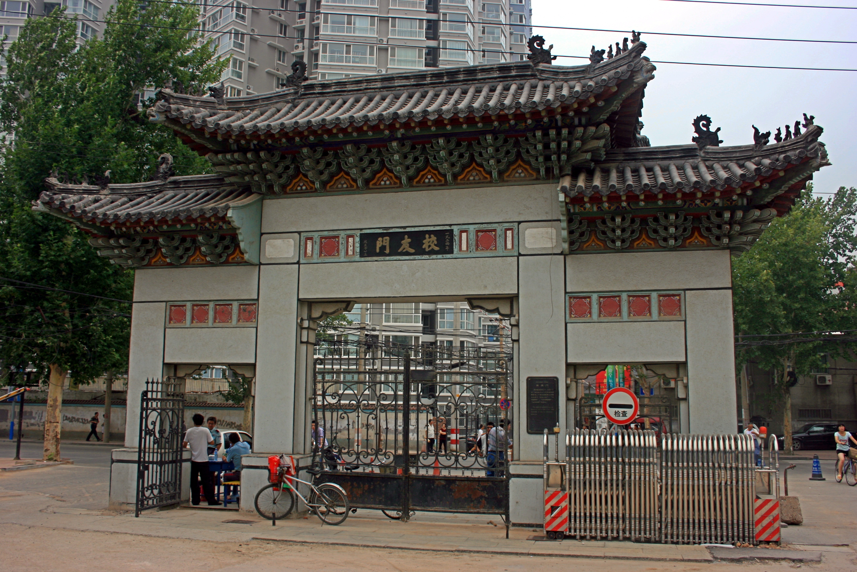 Photograph of the Alumni Gate (construction completed June 17, 1924), at the Shandong University in Jinan, Shandong Province, China.